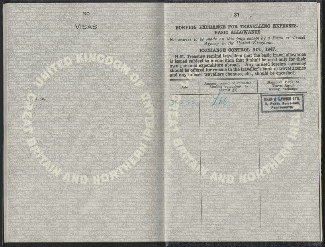 Foreign Exchange for Travelling Expenses, Special Allotment with 'Exchange Control Act, 1947' notation, Issued 1955 (Pages 30 and 31)